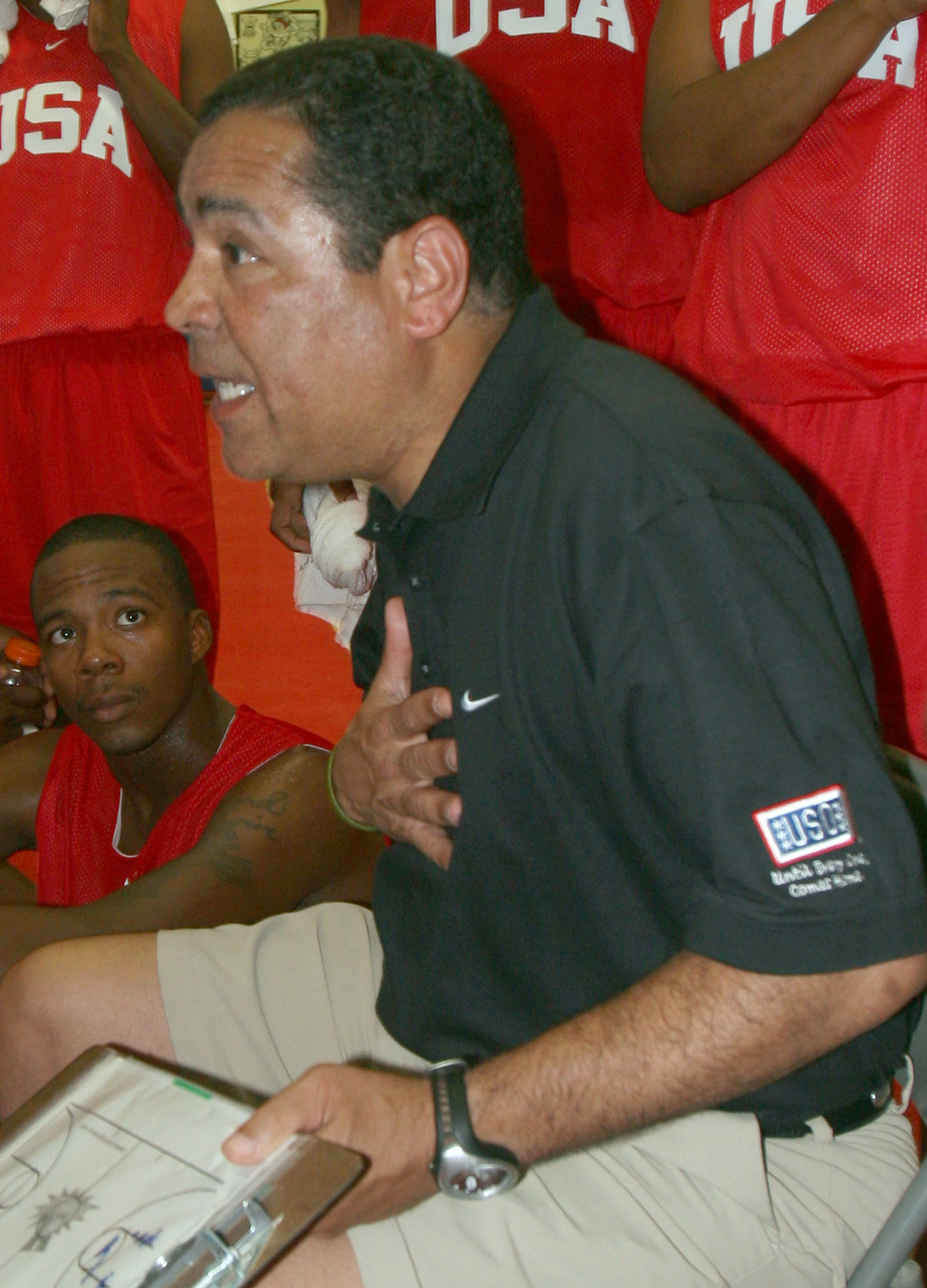 Camp Arifjan, KW - Kelvin Sampson, Indiana University head coach, talks to his Camp Airfjan Renegades team during haltime of their first game during Operation Hardwood II basketball tournament May 25.